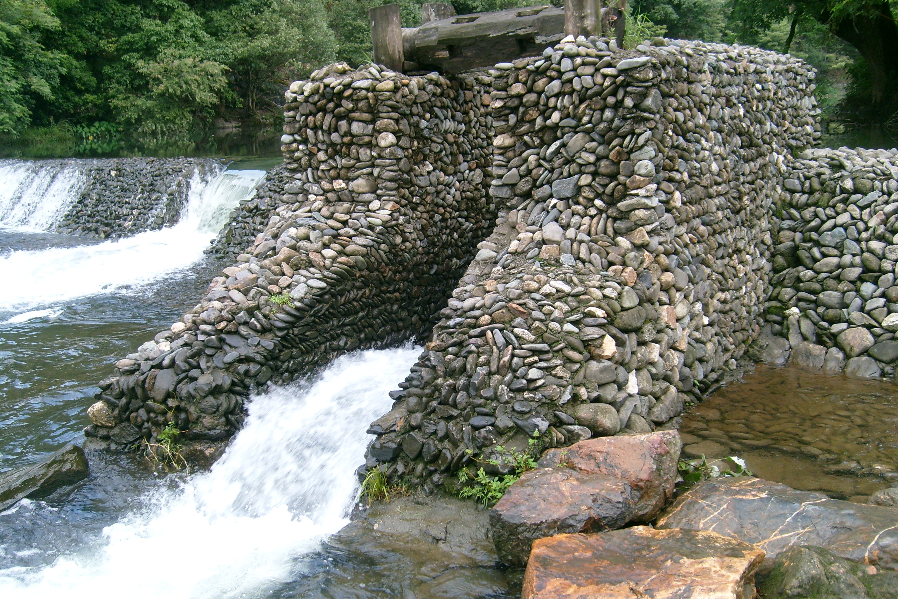 the historical remains of watermill in Yaoli Town,Jingdezhen,China